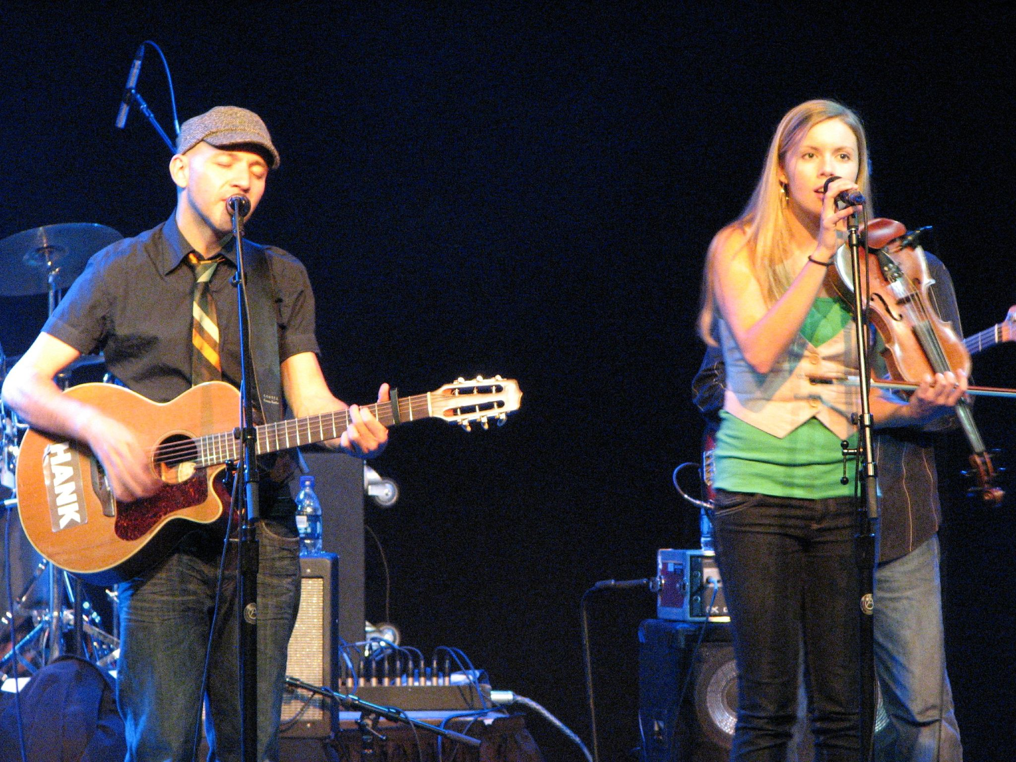 Tom Landa and Kendel Carson of the The Paperboys performing at the Triple Door in Seattle, Washington in November 2006.